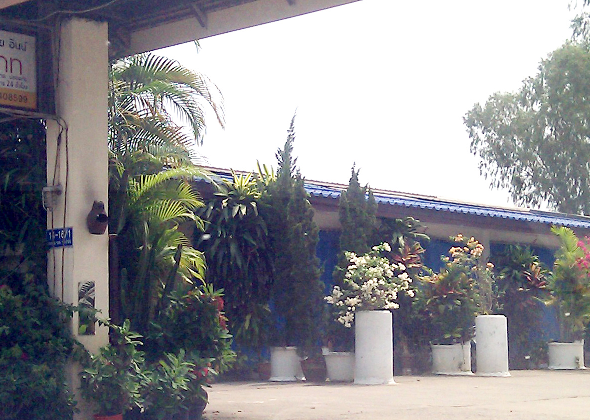 A manrood (lovehotel-style motel) in Chiang Mai, Thailand